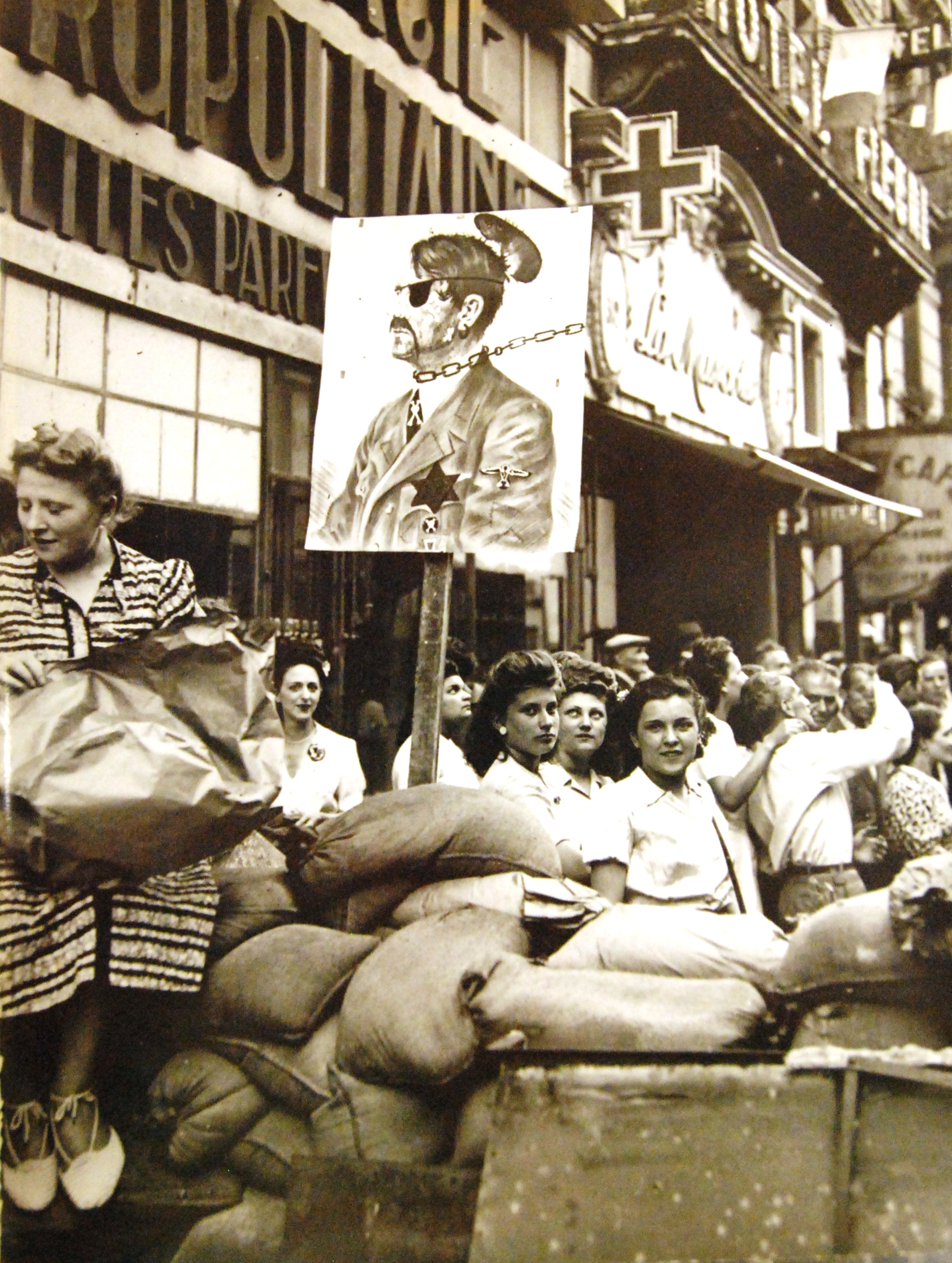 Lot 4568-5: Liberation of Paris, France, August 25, 1944. Barricades go up in the city, note the transformed portrait.Photographed through Mylar sleeve. (7/10/2015).